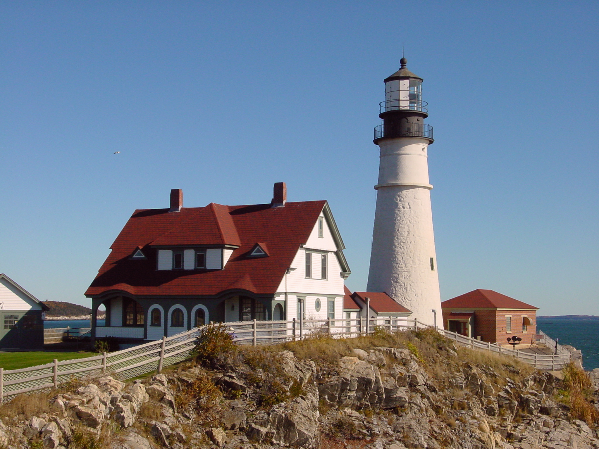 Portland Head Light